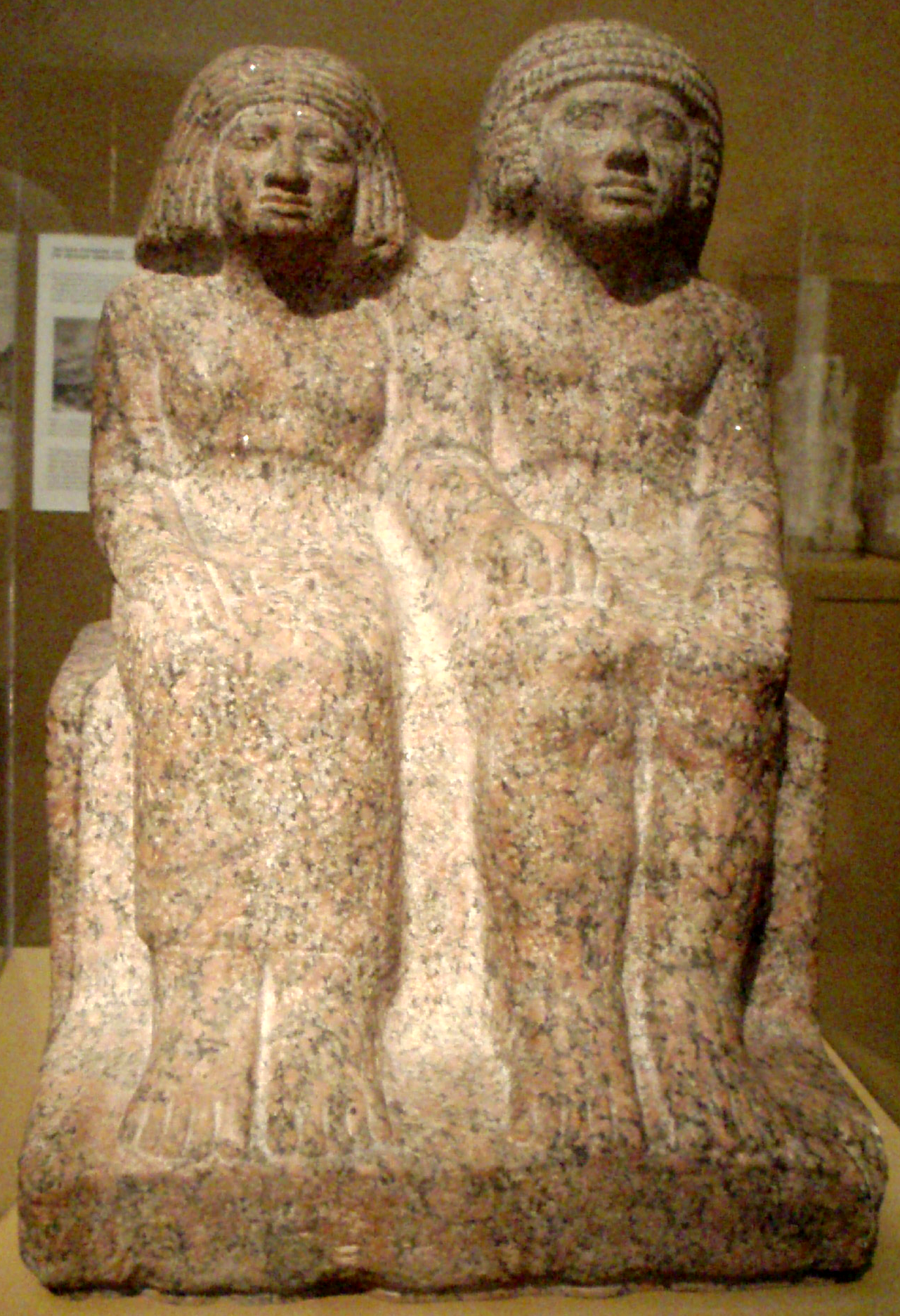 Pair statue of the steward Irankhptah and Nyankhhathor. From Giza, tomb G 1501, made of red granite. From the time of the 4th dynasty, circa 2630-2524 B.C., now at the Museum of Fine Arts, Boston.The pairs names are: Ir-ankh-ptah, and Ny-ankh-hathor, (his name uses Ptah, and hers uses Hathor). Museum Expedition 12.1488. This statue it conveys the sense of mutual love and protection between a husband and wife. The statue was carved a little later than that of Menkaure.